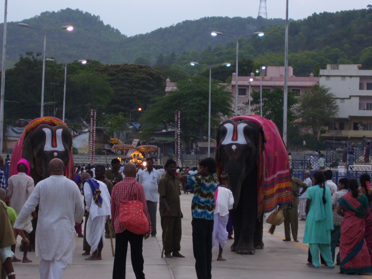 thumb|108px|right|Tirumala Festival